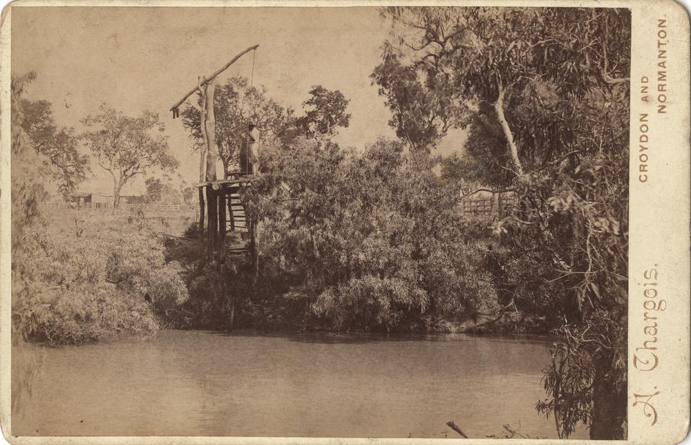 Landing stage on the Delta Downs Station, Normanton, Queensland, ca. 1895